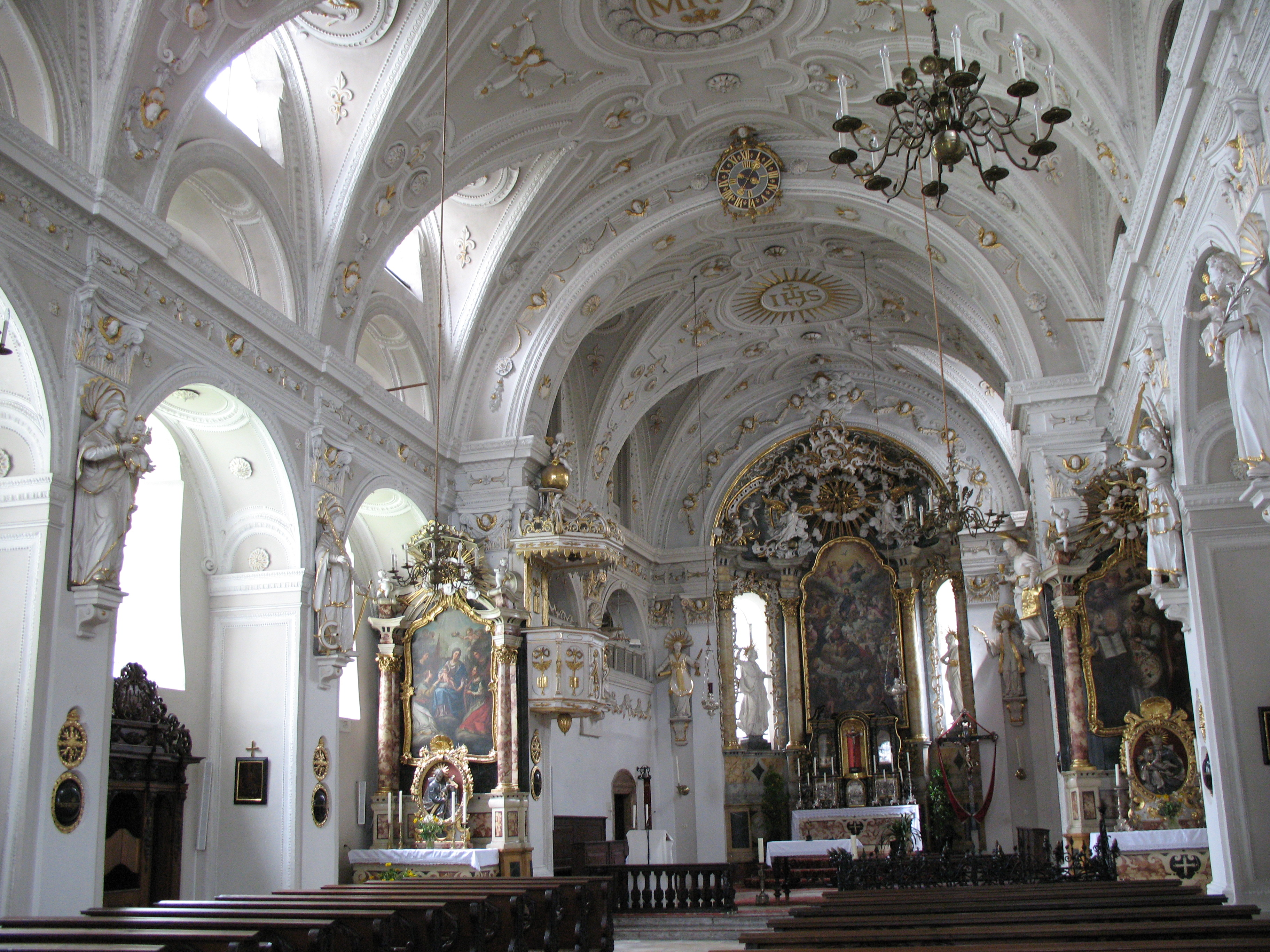 Jesuit Church, Hall in Tirol, Austria